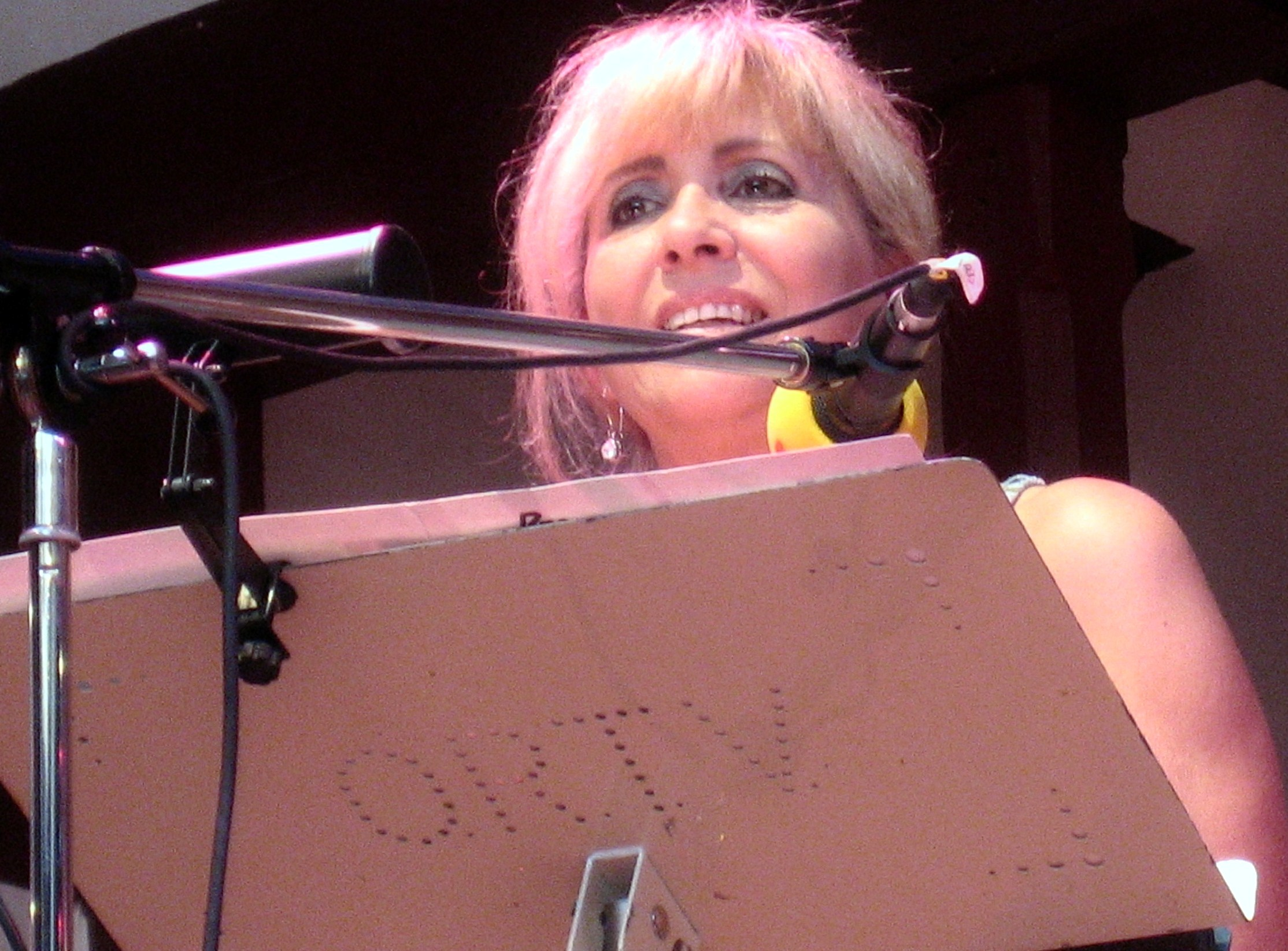 Lourdes Guerras in the Corral of Comedies of Almagro during the representation of " Los farsantes del contrafoso " of Petra Martínez and Juan Margallo, in 2007. Radioteatro of National Radio of Spain. [2]